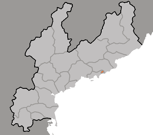 Map of Kumho, Hamgyong-namdo, DPRK, 2006